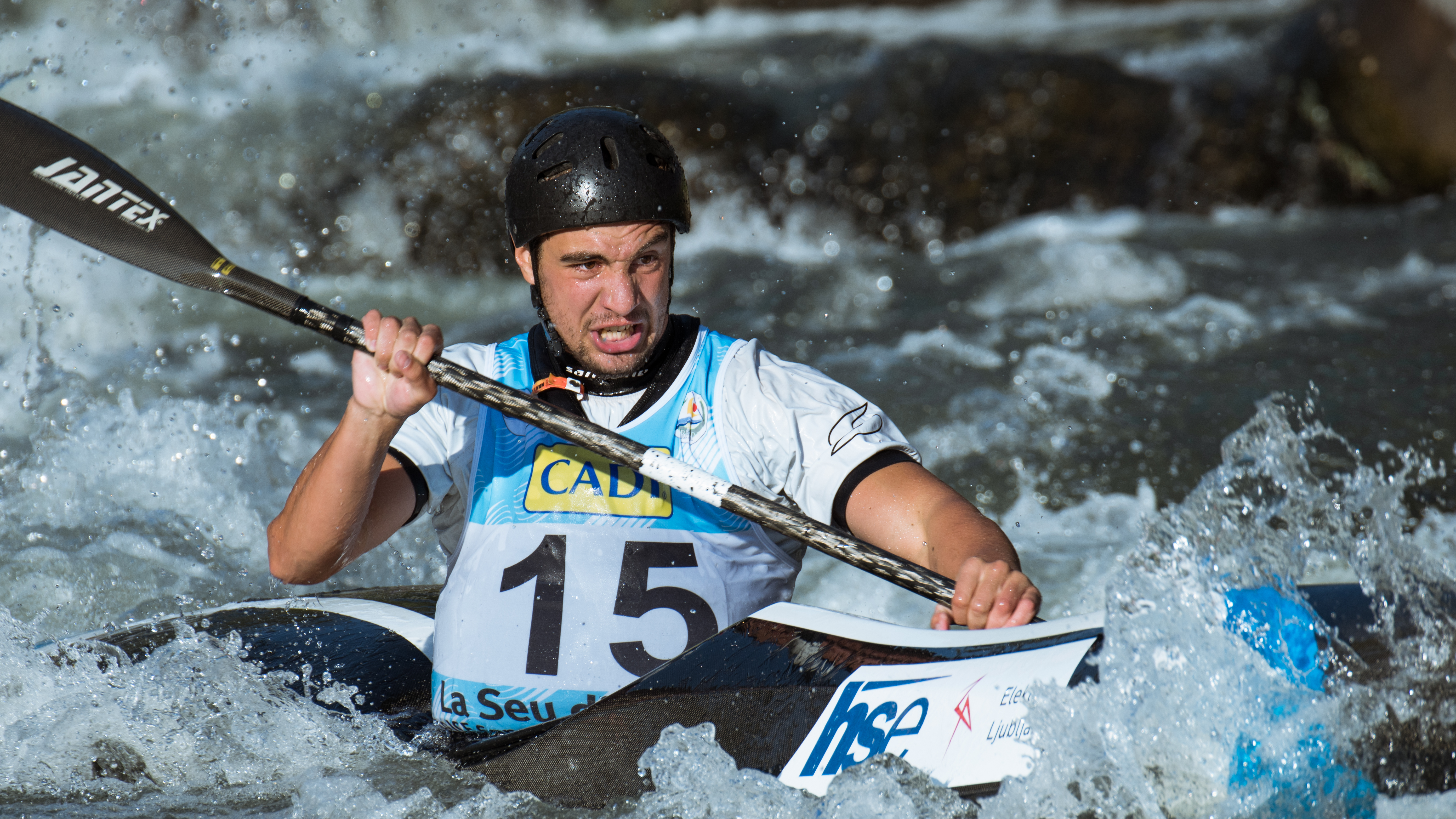 Tim Novak during the 2019 Canoe Wildwater World Championships in La Seu d'Urgell, Spain.